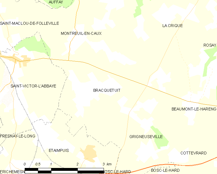 Map of French municipality Bracquetuit